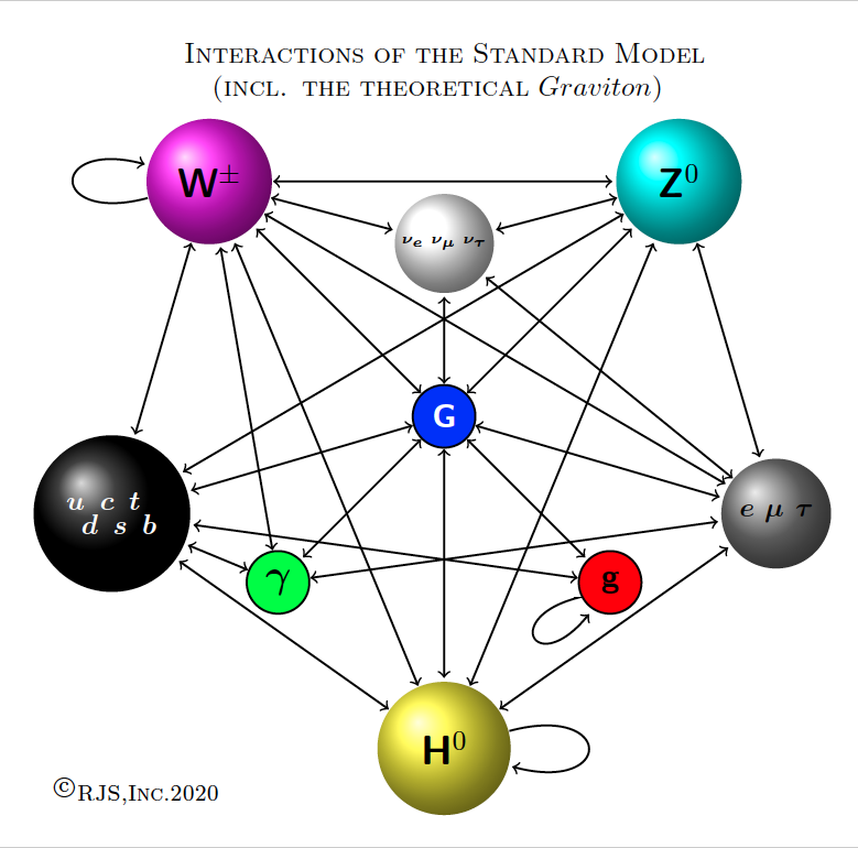 This diagram illustrates the interactions among all particles in the Standard Model, including the presently hypothetical Graviton. Bosons are given vivid colors, while Fermions are given neutral shades. Massive particles are represented by balls with a 3D shading gradient, massless particles are represented by circles with solid fill. Lines represent a fundamental interaction between the two particles comprising the endpoints, and loops represent a self-interaction. The layout was determined by selecting the most symmetric result of arrangements constructed via trial-and-error after establishing a set of "rules": lines may intersect each other, but never intersect a node (particle); and the lines must be straight, having no curvature whatsoever (except for the loops representing self-interactions). Note that the illustration has very obvious fivefold symmetry (pentagon and pentagram); perhaps this implies that the underlying physical theory of a Standard Model containing the Graviton gives rise to this pattern and may exhibit fivefold symmetry itself.